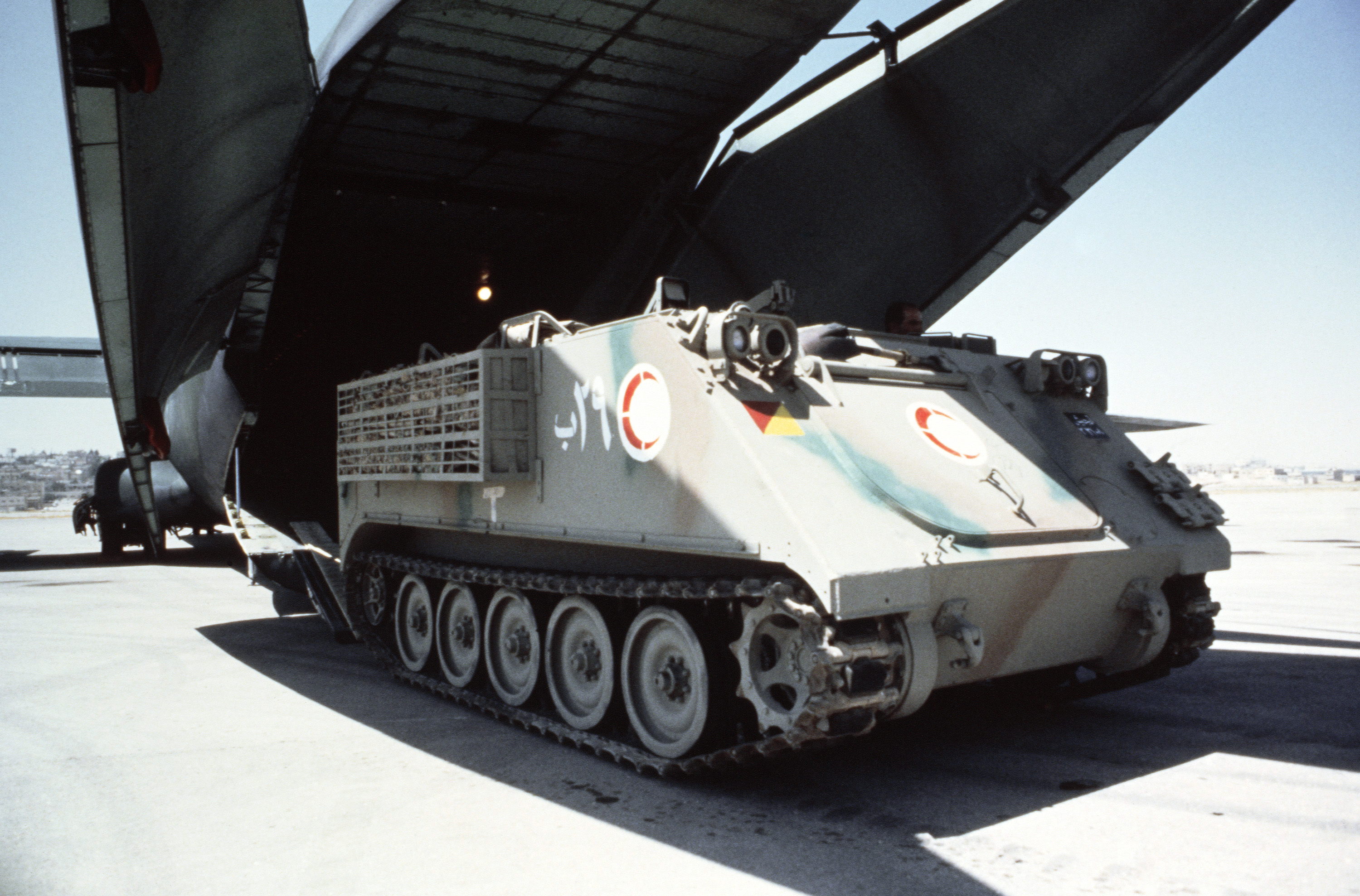 A Jordanian M113 armored personnel carrier is offloaded from 437th Military Airlift Wing C-141B Starlifter aircraft at King Hussein Airport during Exercise SHADOW HAWK'87, a phase of BRIGHT STAR'87.